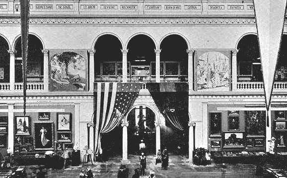 Amanda Brewster Sewell, Murals at Women's Building, 1893 Exposition, Sewell's mural, Arcadia, on the left